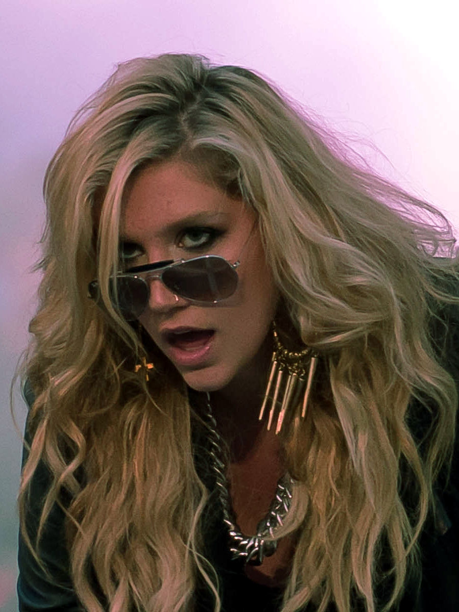 MuchMusic Video Awards soundcheck.